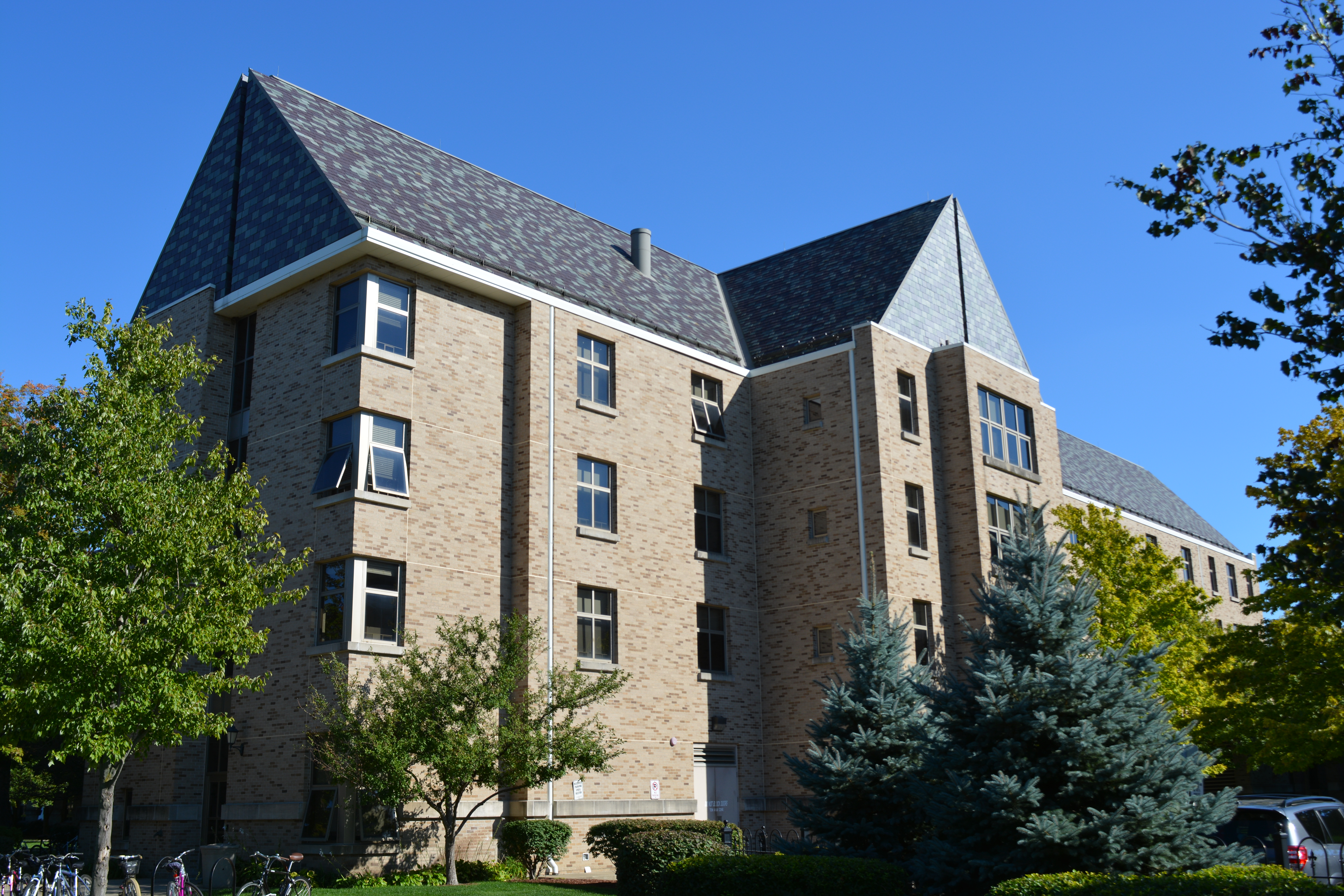 University of Notre Dame